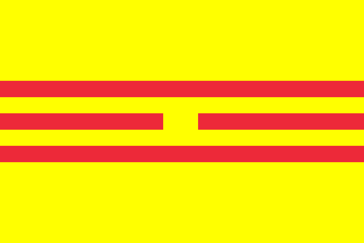 Old flag of Vietnam.